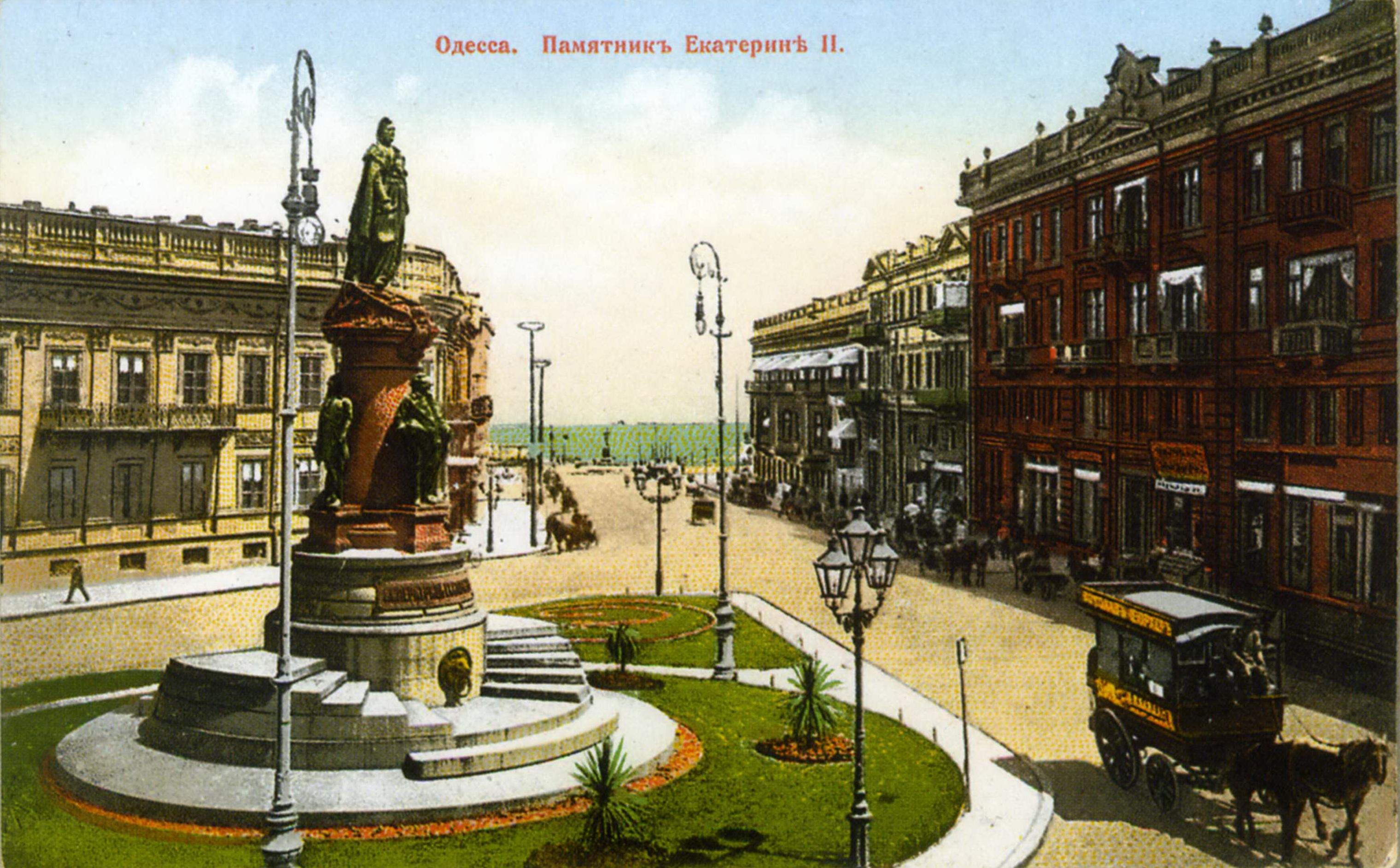 Памятник Екатерине II в Одессе